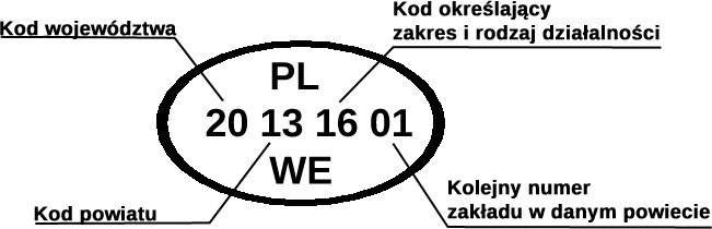 EC identification and health marks